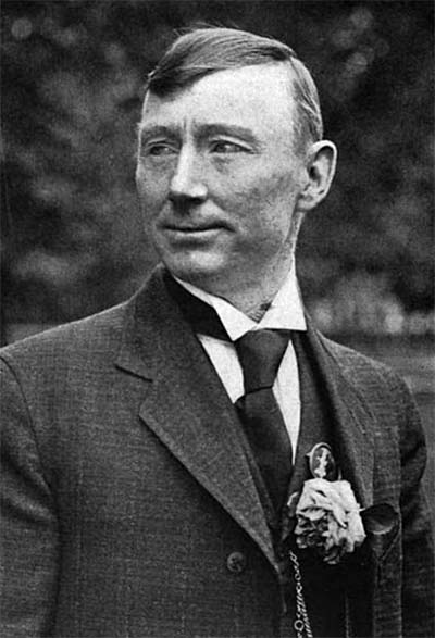 Depicted person: Steve Adams – American miner